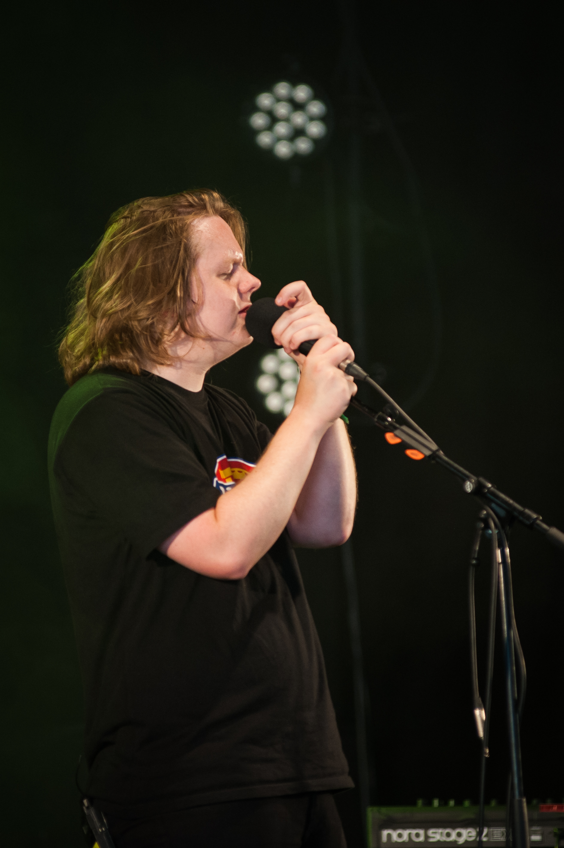 Scottish singer-songwriter Lewis Capaldi performing at the 2018 Ilosaarirock festival in Joensuu, Finland.